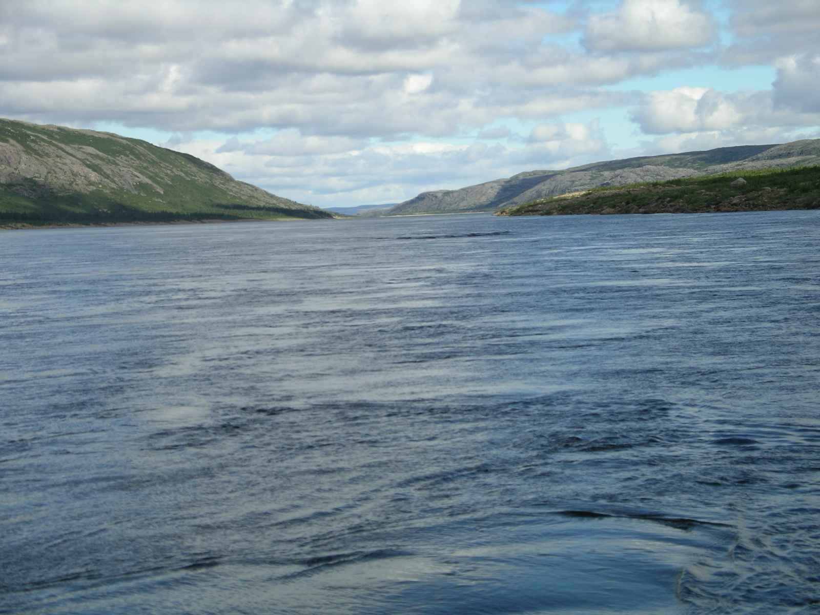 Leaf River, Quebec